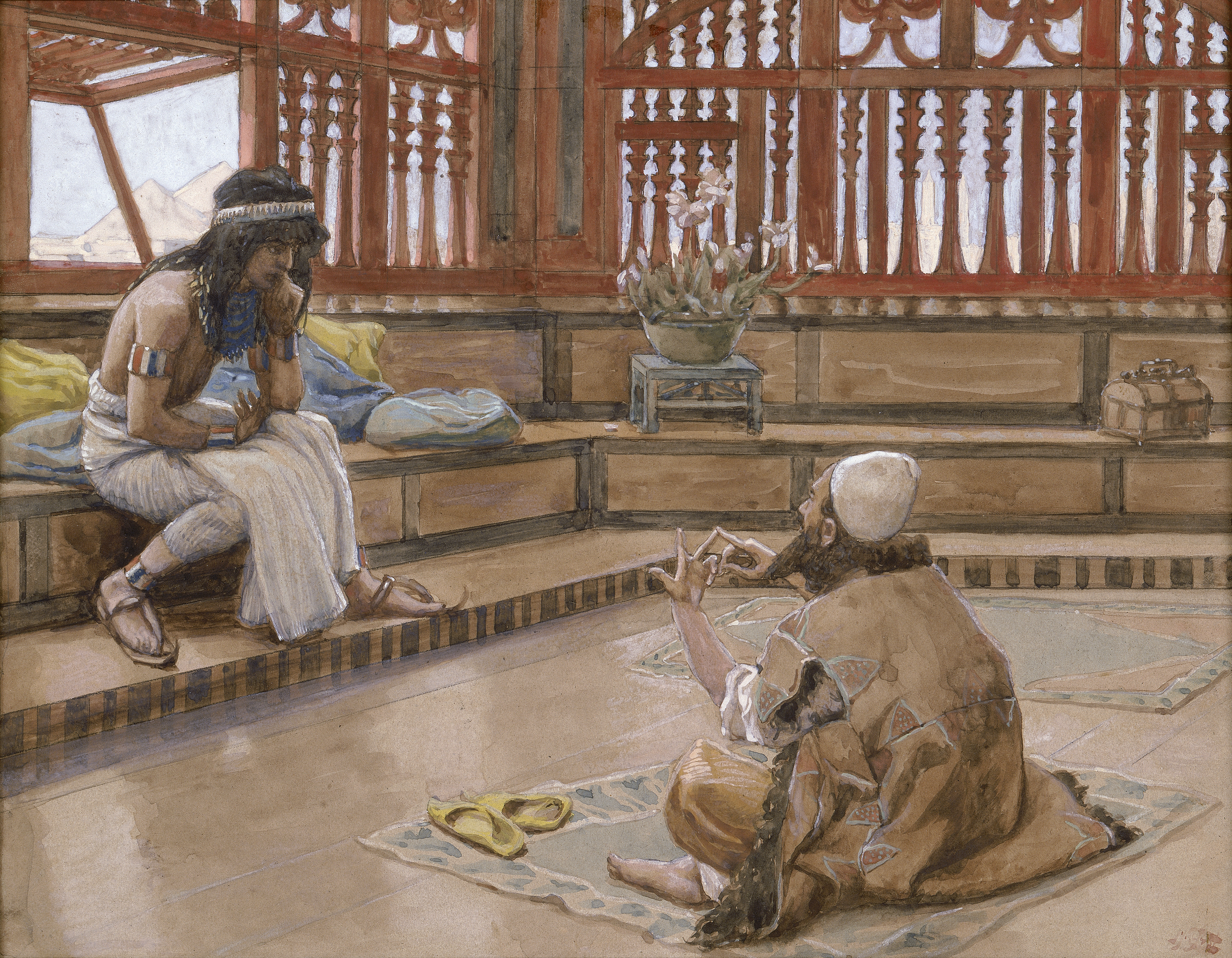 Joseph Converses With Judah, His Brother, c. 1896-1902, by James Jacques Joseph Tissot (French, 1836-1902), gouache on board, 7 7/8 x 10 3/16 in. (19.9 x 25.9 cm), at the Jewish Museum, New York